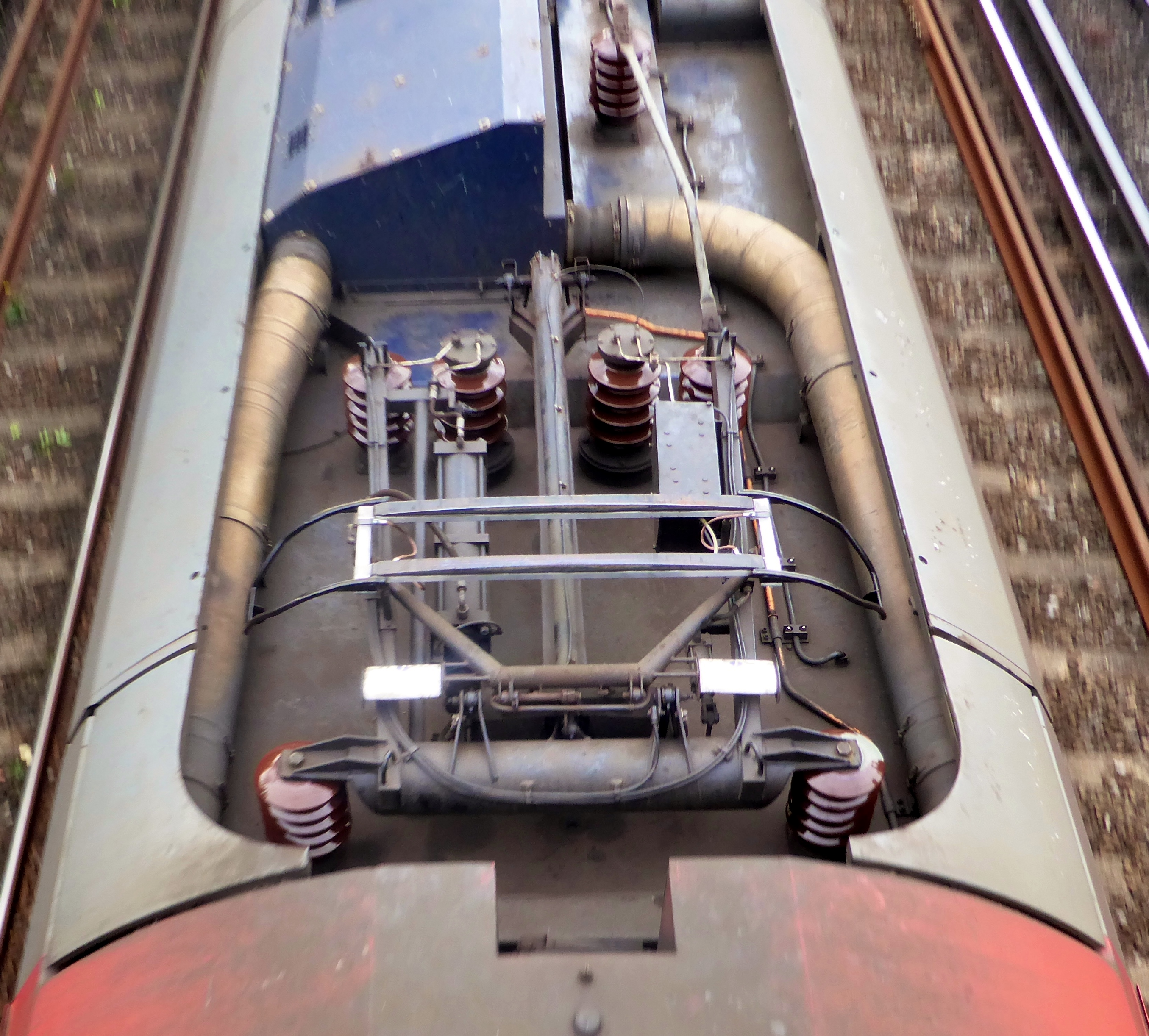 Brecknell Willis pantograph down on roof of 92016